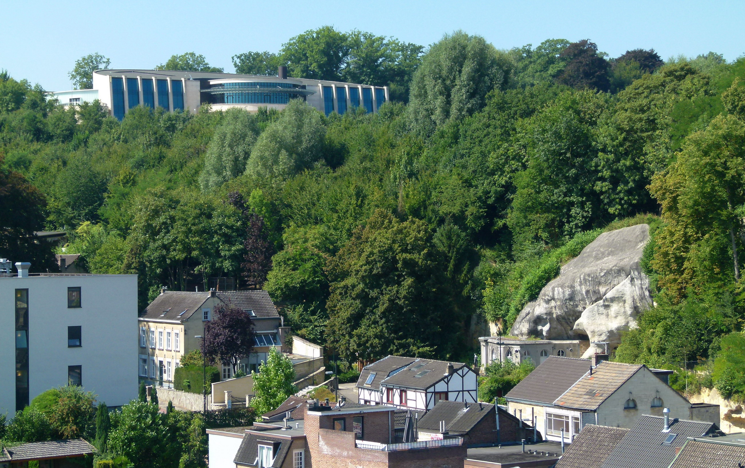 Valkenburg, Limburg, the Netherlands. View towards the West from Valkenburg Castle. Top left: Holland Casino. Bottom right: Lourdes Grotto.